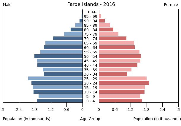 The population pyramid of Faroe Islands illustrates the age and sex structure of population and may provide insights about political and social stability, as well as economic development. The population is distributed along the horizontal axis, with males shown on the left and females on the right. The male and female populations are broken down into 5-year age groups represented as horizontal bars along the vertical axis, with the youngest age groups at the bottom and the oldest at the top. The shape of the population pyramid gradually evolves over time based on fertility, mortality, and international migration trends.